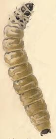 Stainton’s Natural History of the Tineina (1855–1873): Coleophora millefolii